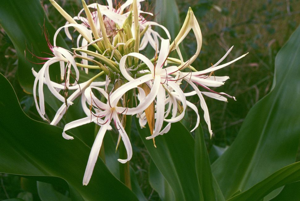 Crinum asiaticum (var. sinicum?), Amaryllidaceae - Kambodscha/Cambodia, Phnom Bokor Nationalpark, Bokor Hill Station, bei "Palace Hotel" (Prov. Kampot)